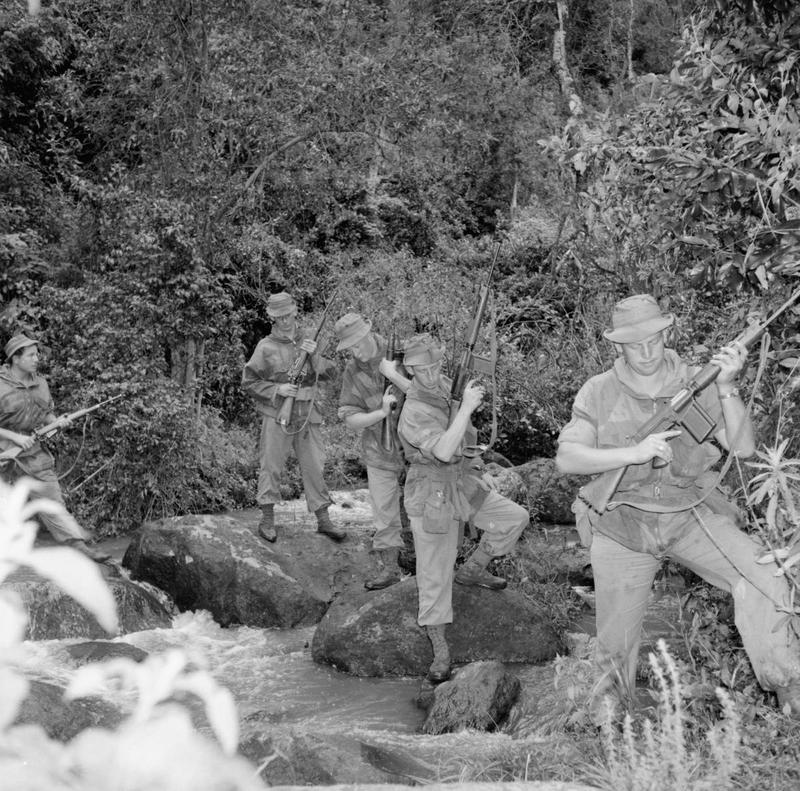 British Army patrol crossing a stream during the Mau Mau rebellion. The soldiers carry a variety of weapons, including the X8E1 (Belgian-made 7.62mm FN FAL) (1st and 2nd soldiers from right); the 9 mm Sten Mk5 and the Lee Enfield .303 Rifle No. 5 (4th and 5th soldiers). Weapons are identified from the book The FN FAL Battle Rifle, by Bob Cashner, ISBN 978-1-78096-903-9.